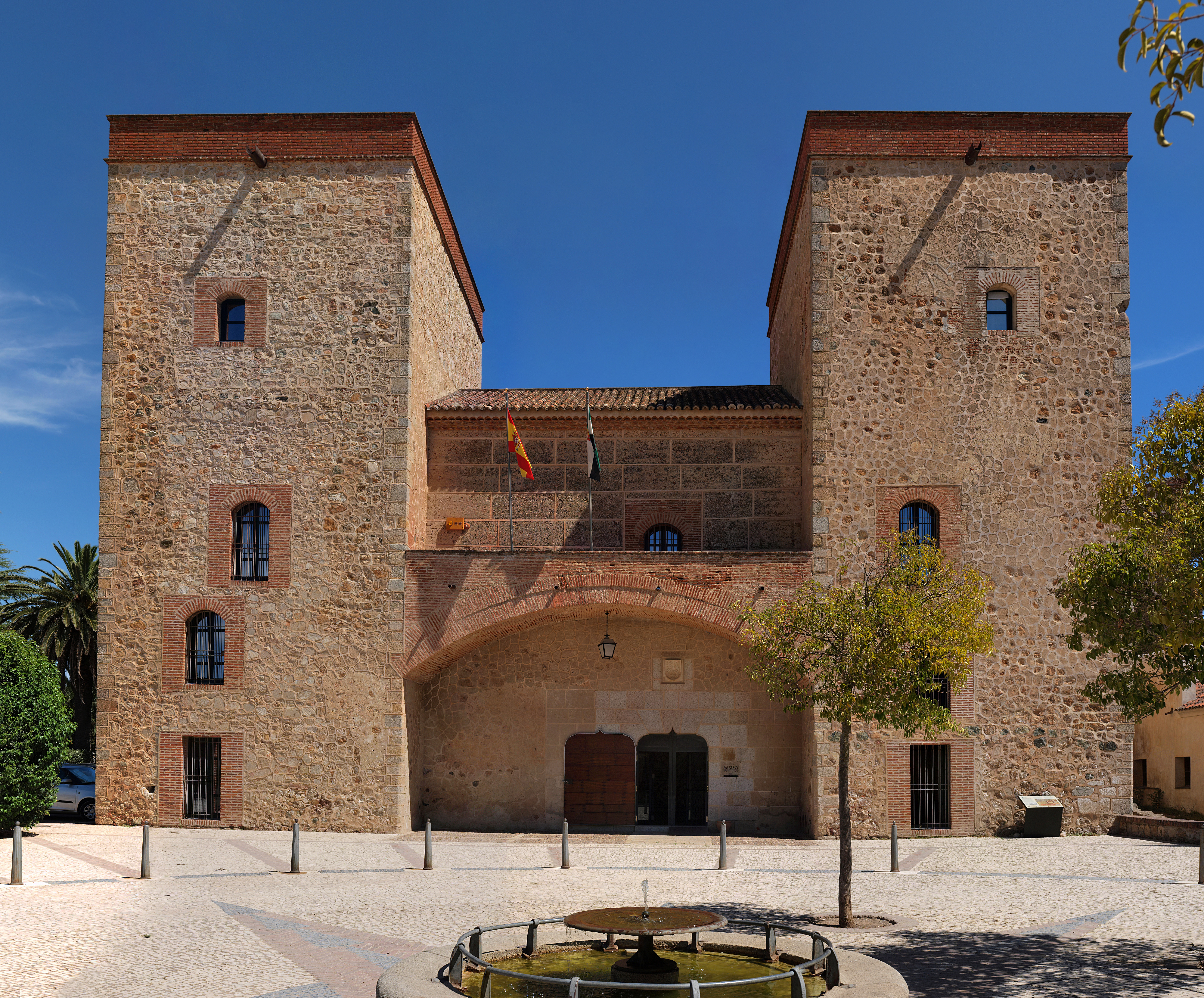 Archaeologic Museum of Badajoz, in the Alcazaba. Sitch of 16 horizontal images.